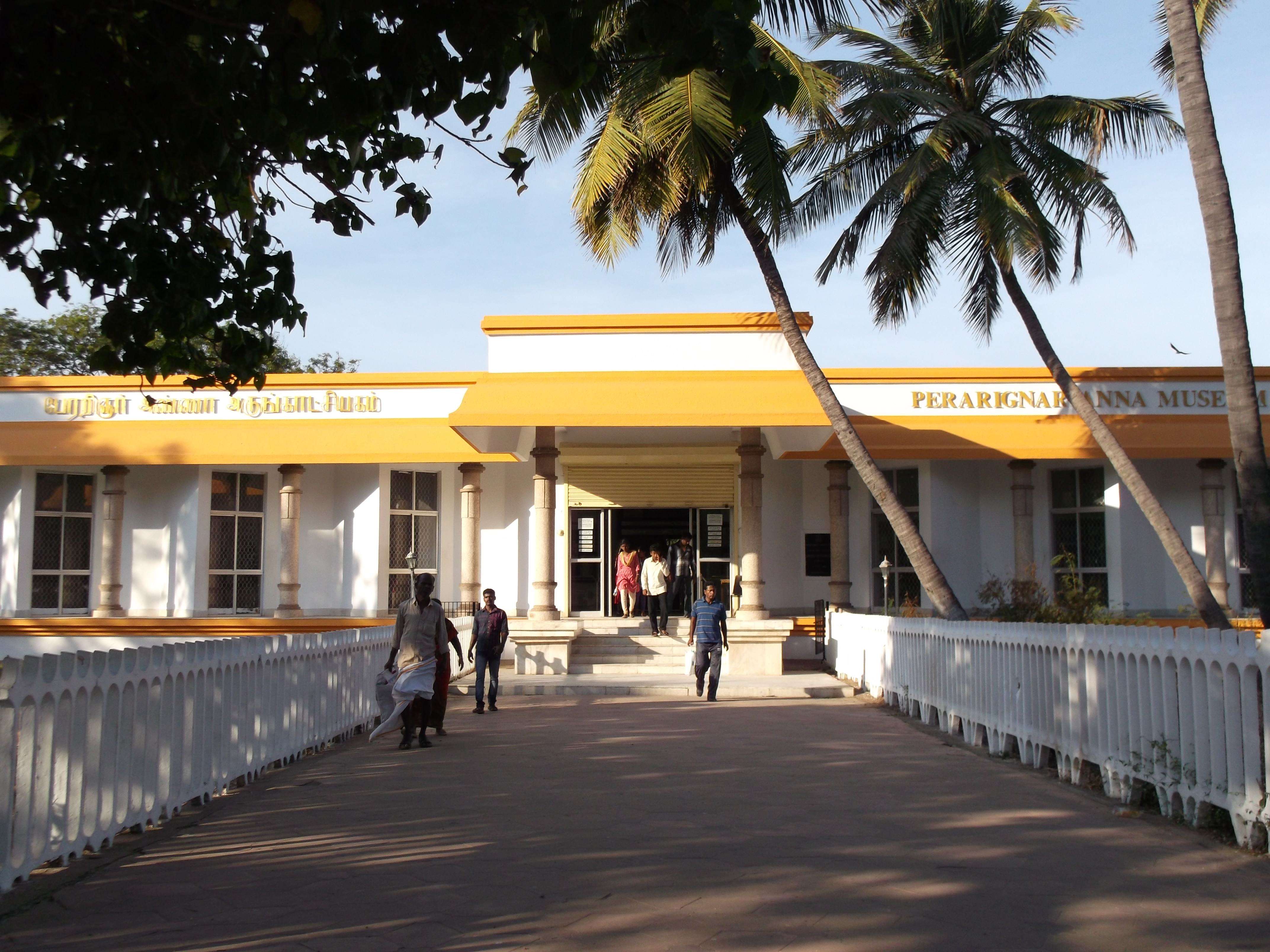 Chennai Anna Memorial museum, taken on 2-Feb-2013 at around 4.00 pm